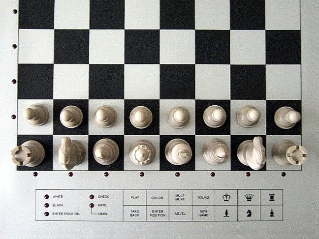 Tandy radio shack 1650 computerized chess